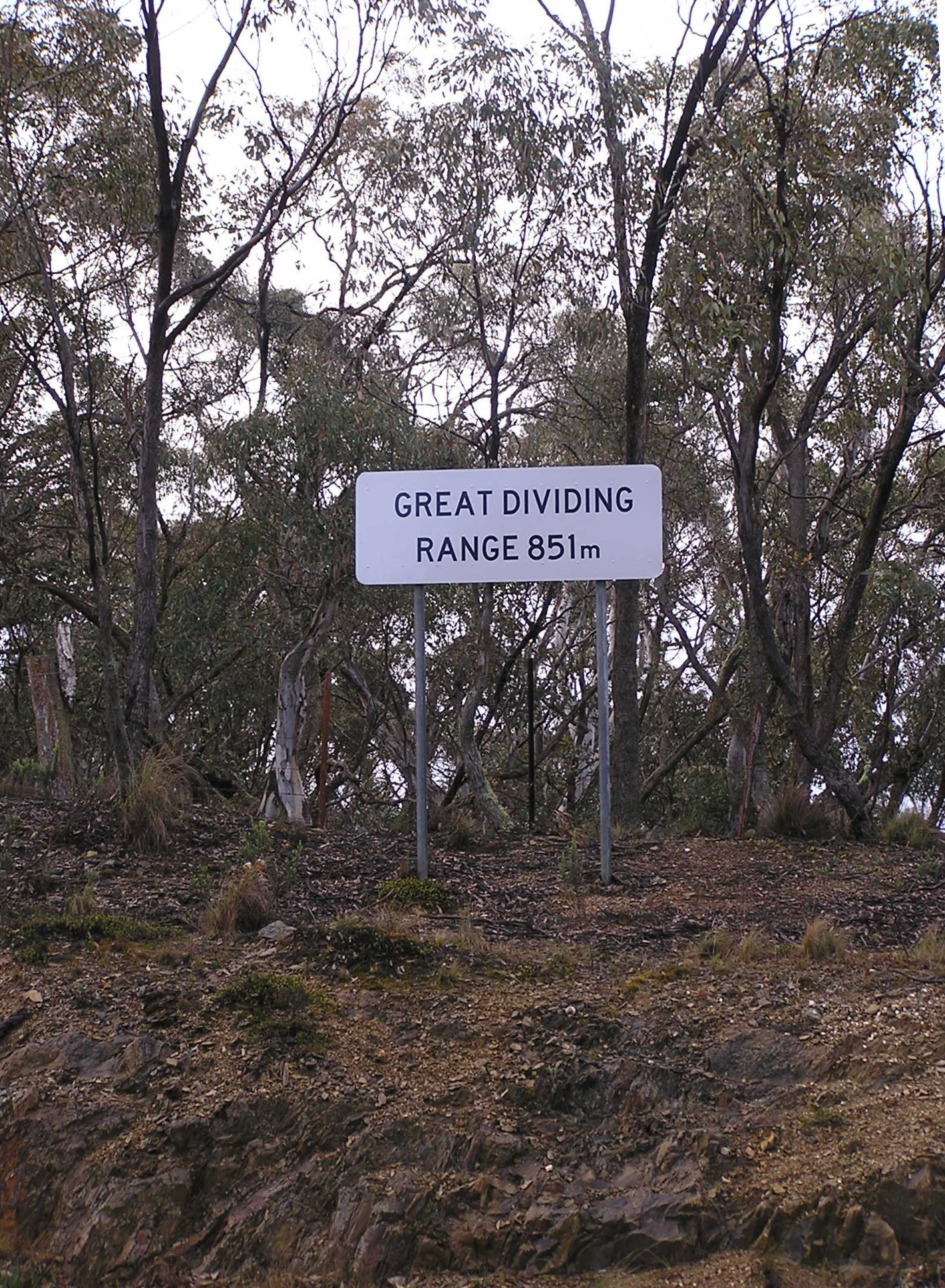 Great Dividing Range sign on Kings Highway between Braidwood and Bungendore, New South Wales, Australia Picture taken by AYArktos September 2005